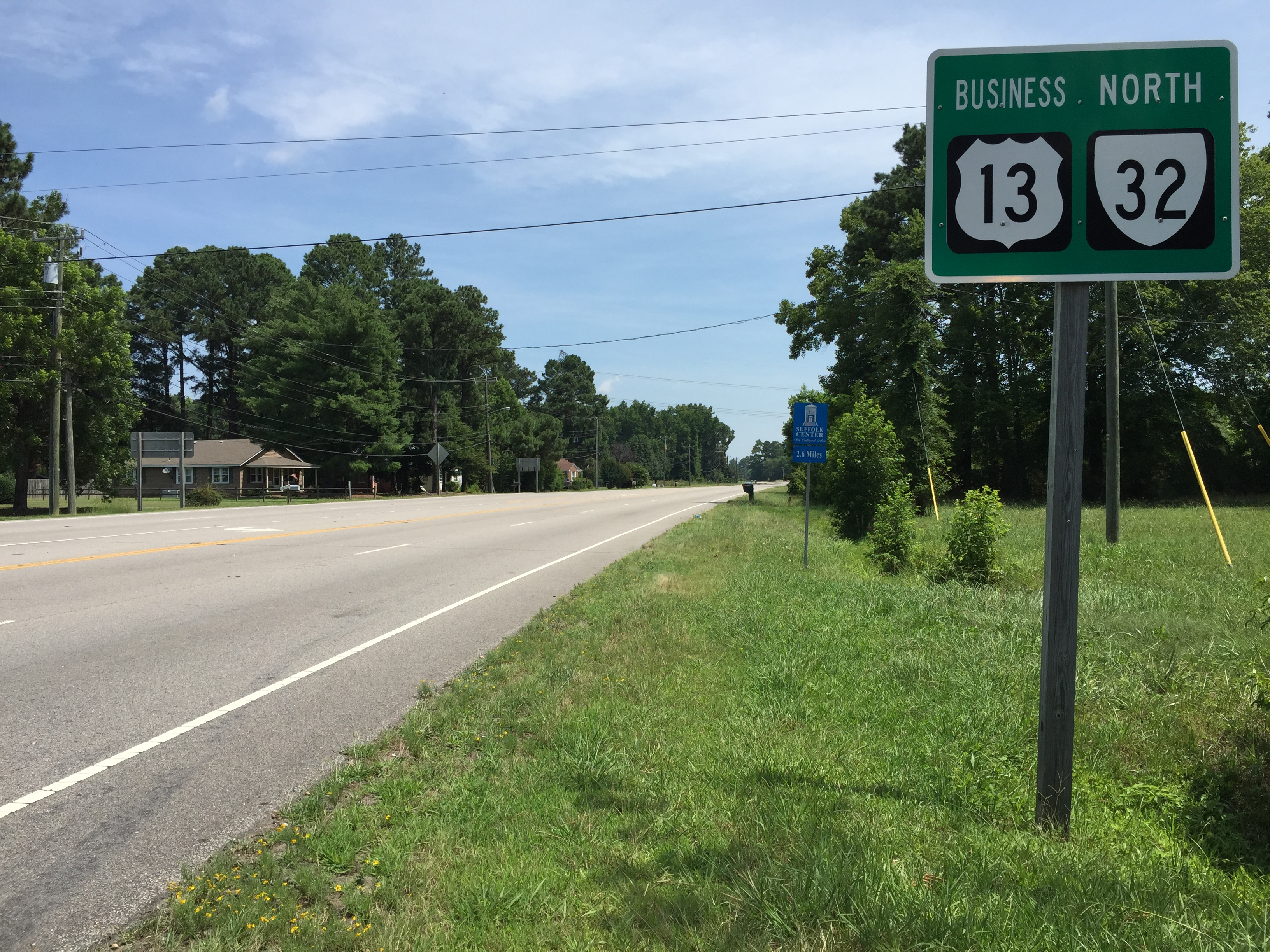 View north along U.S. Route 13 Business and Virginia State Route 32 (Carolina Road) at Coleman Court in Suffolk, Virginia